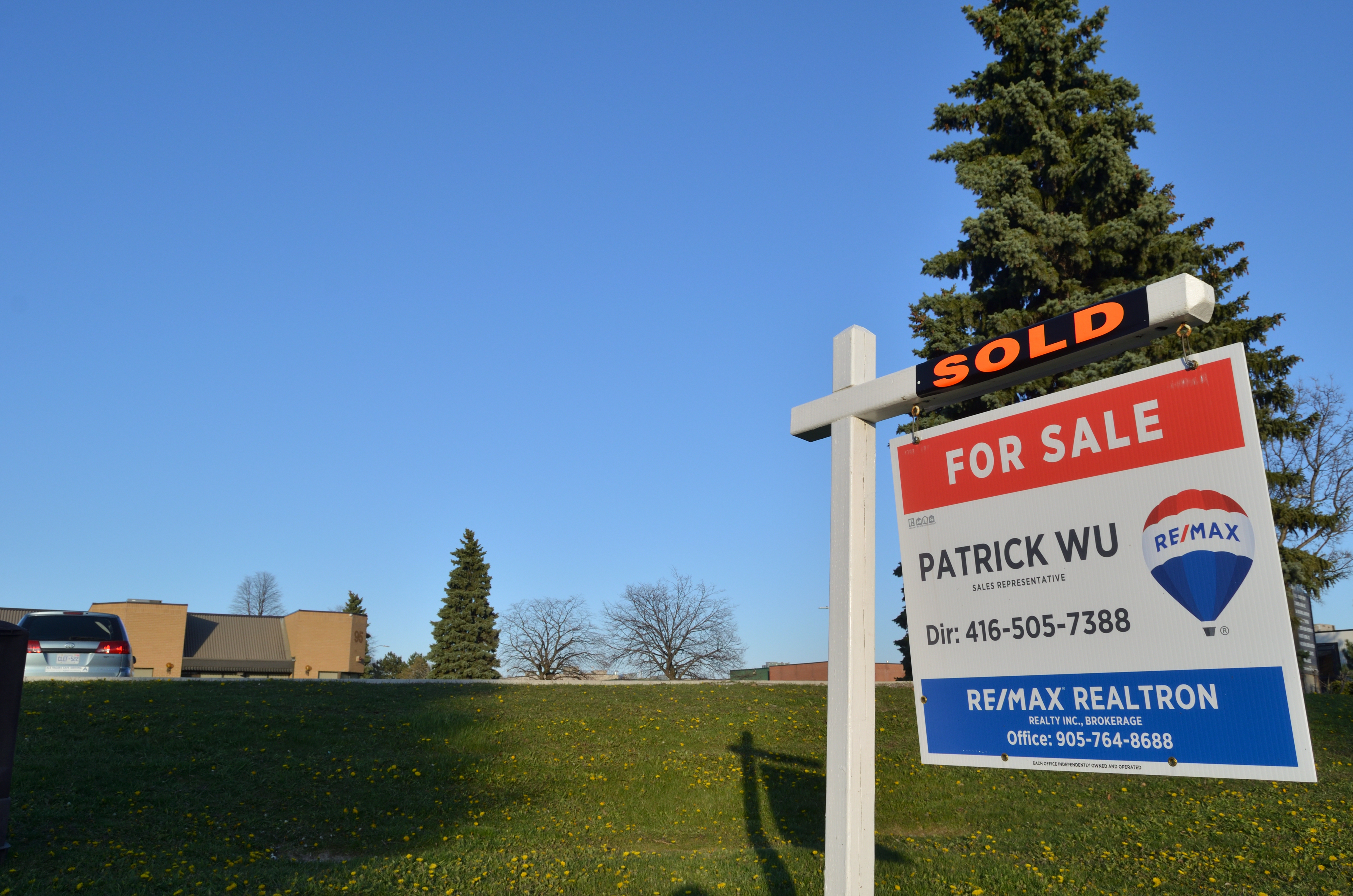 Sold sign outside of a business building at 95 West Beaver Creek Road, Richmond Hill, Ontario